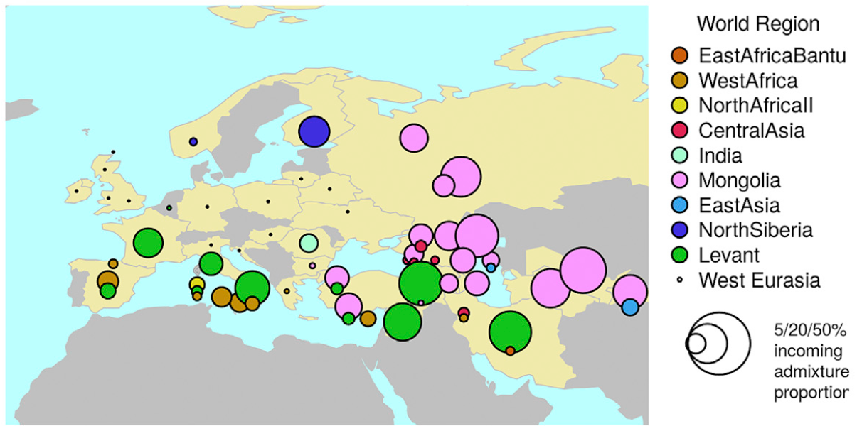 The Impact of Recent Admixture in West Eurasia. For each geographic sampling location, we estimated the proportion of ancestry coming from outside of West Eurasia by averaging GLOBETROTTER’s admixture inference across individuals from a sampling location. The sampling locations of each point are shown; Caucasus populations are spread out to aid visibility. Points are stacked vertically in cases where multiple ancestries are present in a population.